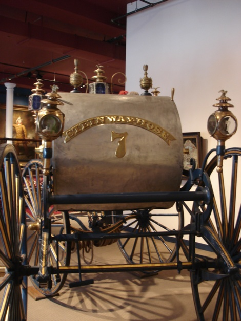 Photo taken upstairs at the New York City Fire Museum. Shows the Steinway Hose No. 7 engine.